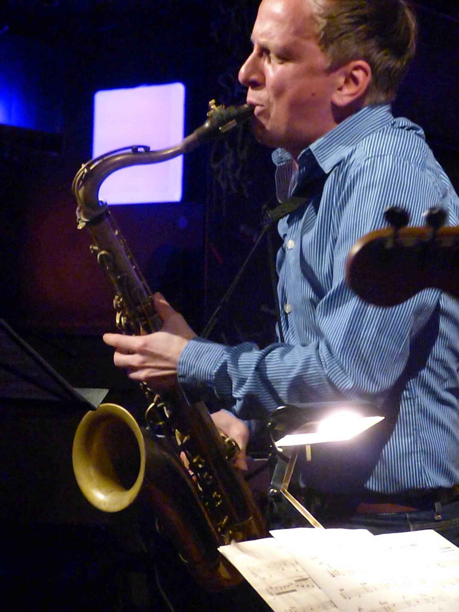 Sebastian Gille in concert “Fanta Kolloquium” December 19th, 2017 at ARTheater (Cologne), Germany, together with Robert Landfermann (b), Peter Kahlenborn (dr), Tobias Hoffmann (e-g), and Ralph Beerkirchen (e-g)